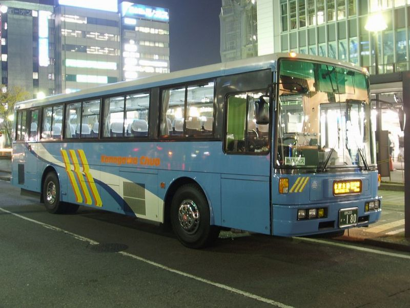 Kanachu Hi812